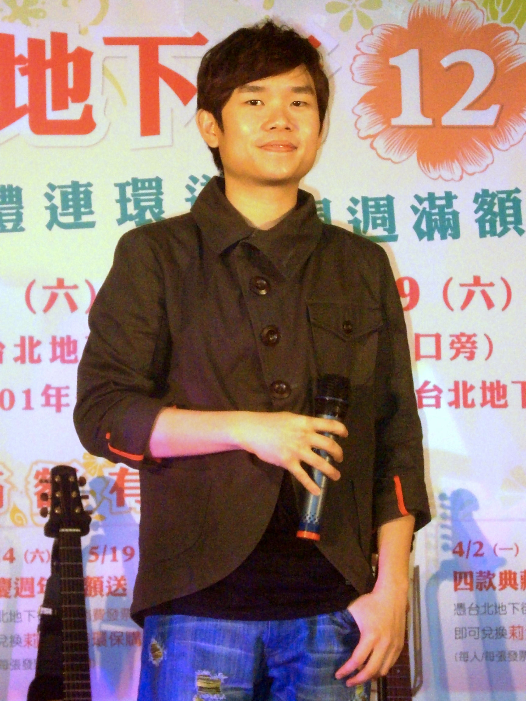 Jiahui Wu at Taipei City Mall 12-Years Anniversary Opening Event.